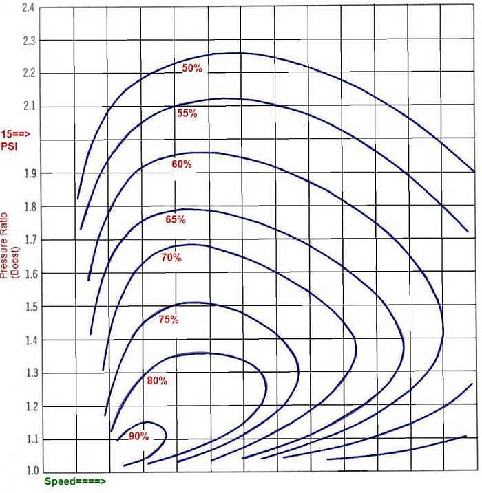 I created this for the supercharger article. – — … ° ≈ ± − × ÷ ← → · § =Motorhead 00:25, 3 September 2006 (UTC)